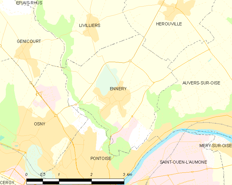 Map of French municipality Ennery